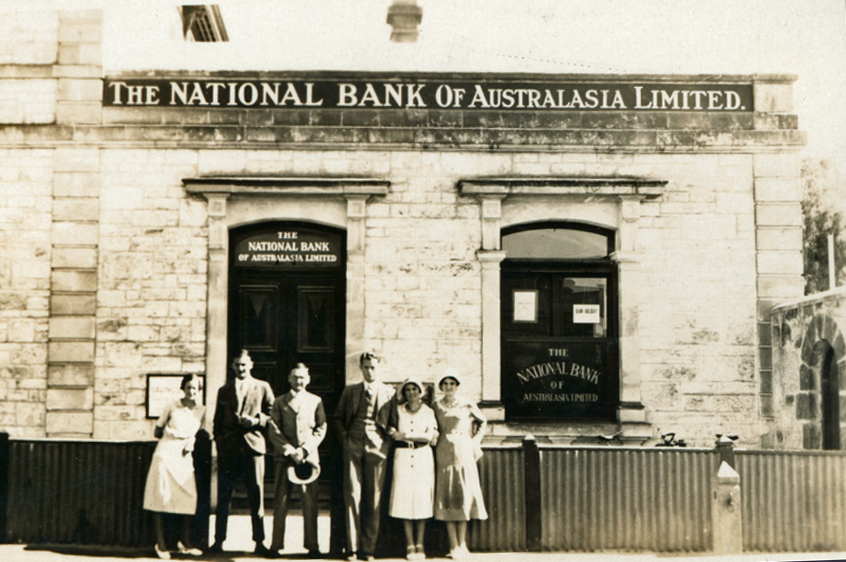 Postcard of a group of people standing in front of the National Bank of Australasia in Naracoorte, South Australia in 1931.